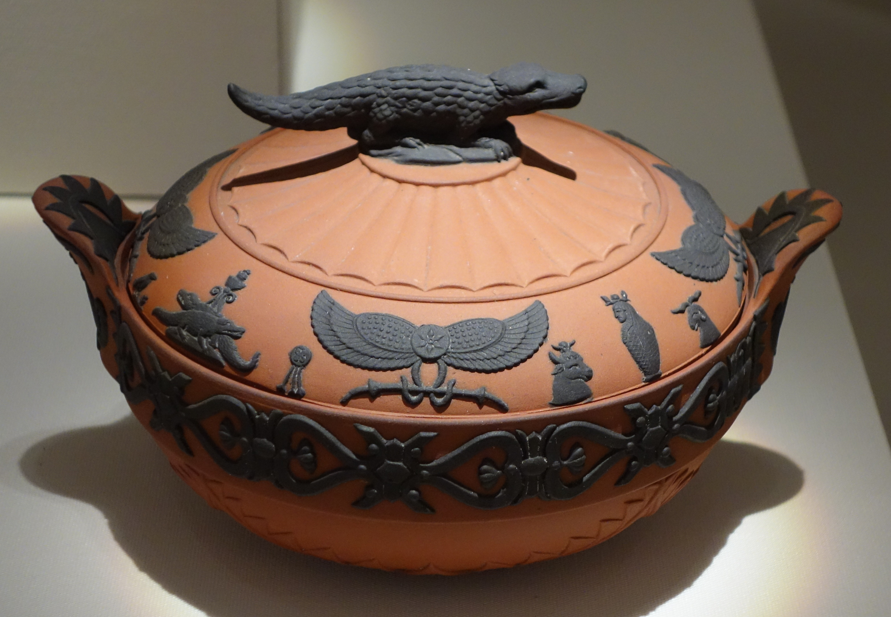 Exhibit in the Chazen Museum of Art, University of Wisconsin-Madison, Madison, Wisconsin, USA. This artwork is old enough so that it is in the public domain.